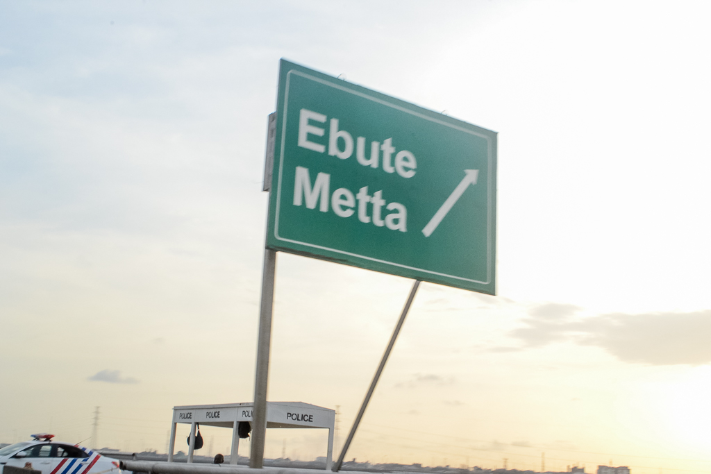 Sign post indicating Ebute Metta axis of Lagos.